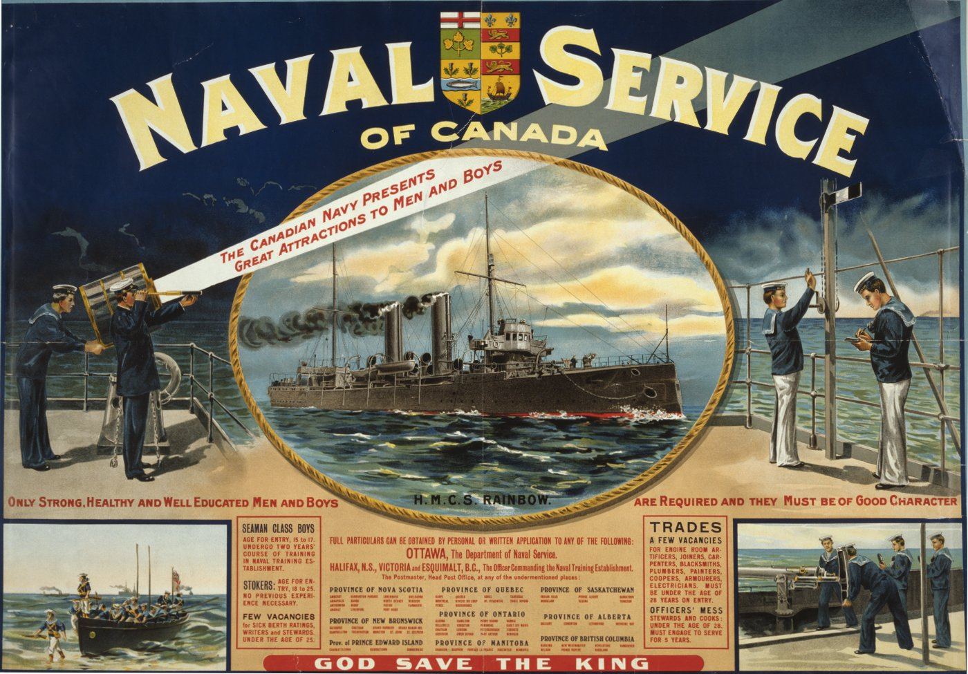 Recruiting poster for Naval Service of Canada, World War I, showing H.M.C.S. Rainbow and smaller scenes of navy activities.